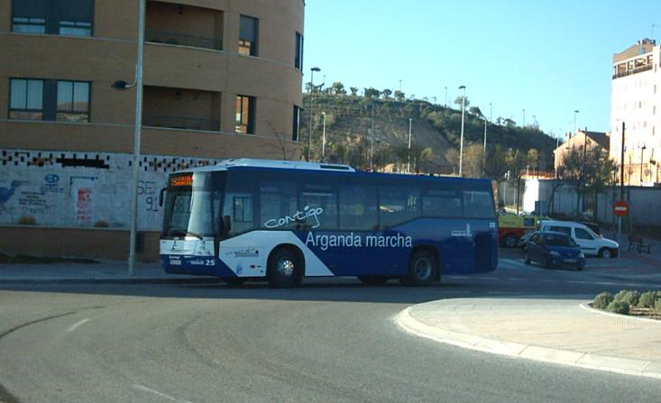 Bus (#25) in Arganda del Rey, Spain. Arganda marcha operator?